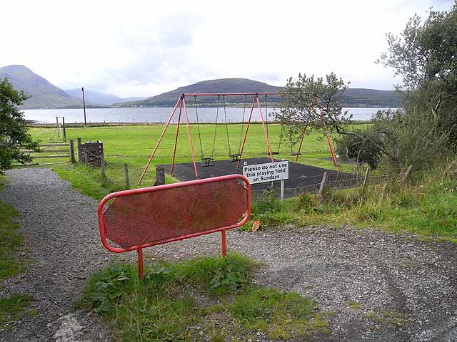 Recreation ground on the Isle of Raasay There is a strong tradition of strict Sunday observance on the islands of Scotland, and this is a matter which provokes strong emotions for many inhabitants.